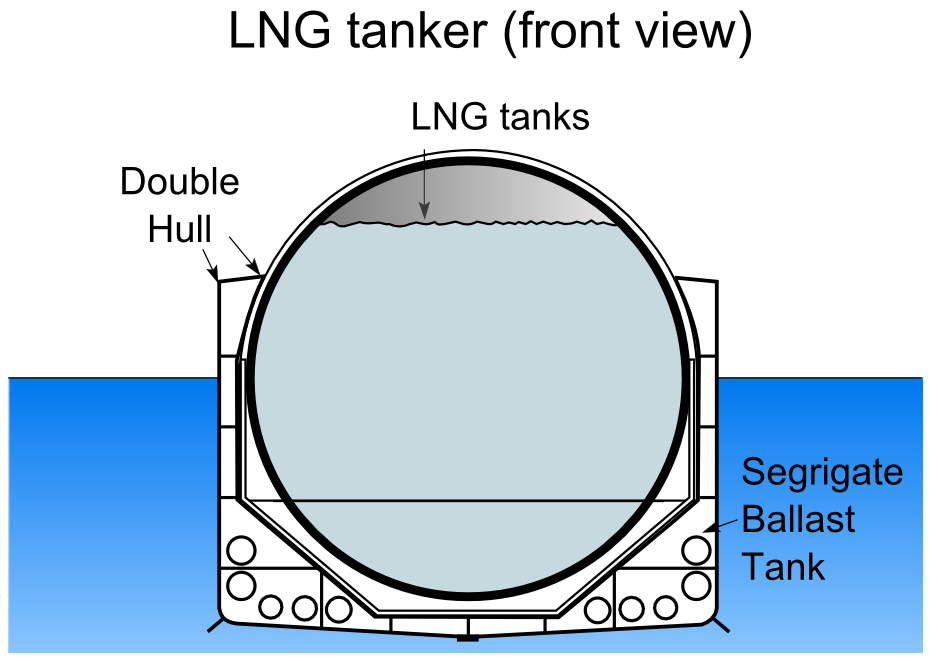 Liquefied natural gas (LNG) tanker, section view from front.